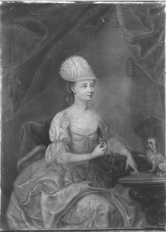 Portrait of Countess Palatine Maria Anna of Zweibrücken-Birkenfeld (1753-1824), wife of Duke Wilhelm in Bavaria